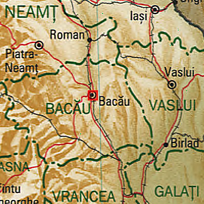 Map of Bacău Municipality, Romania.